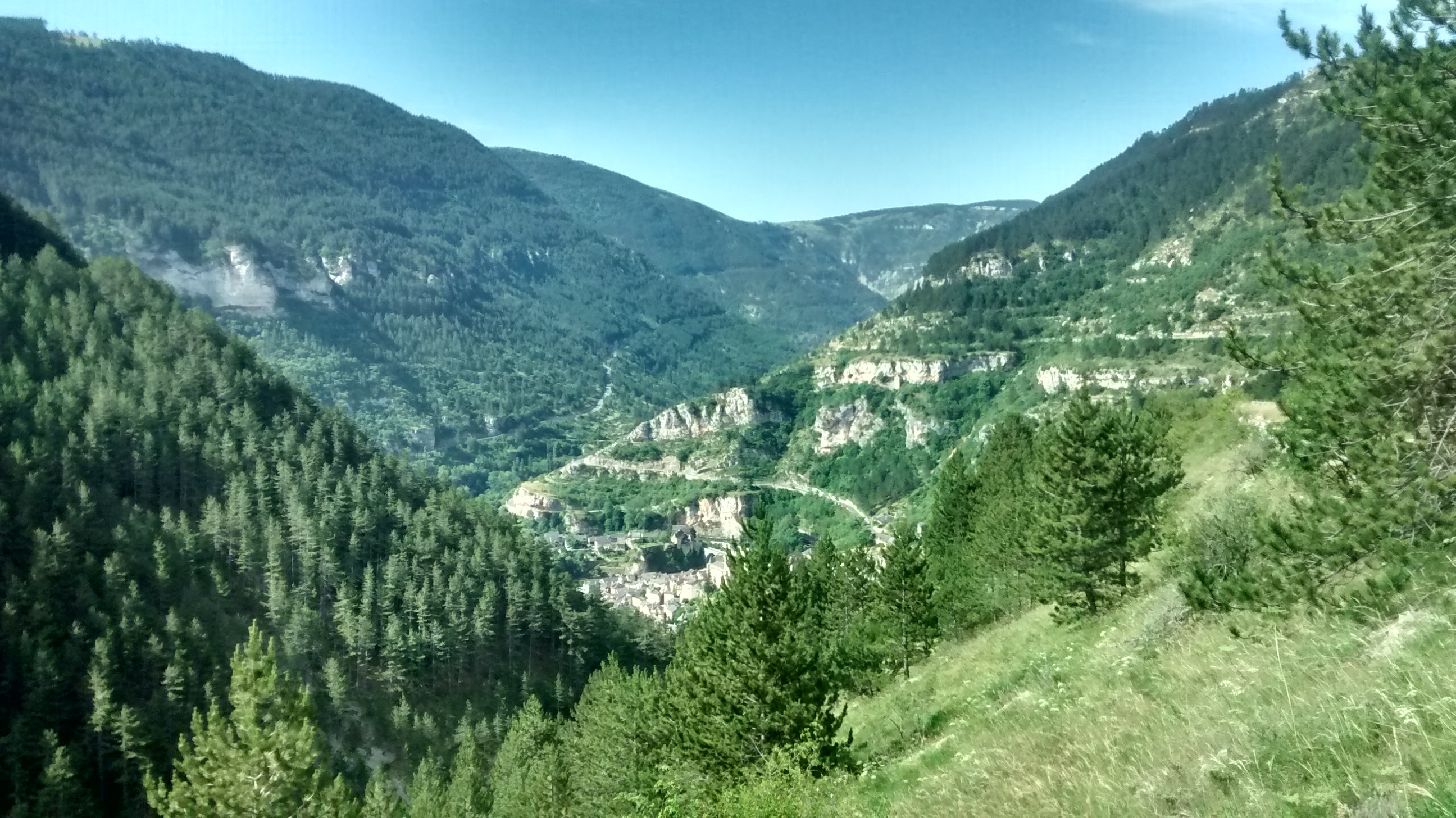 Picture taken in June 2015, from a footpath leading down the valley to the commune of Sainte-Enimie in Lozère, France.